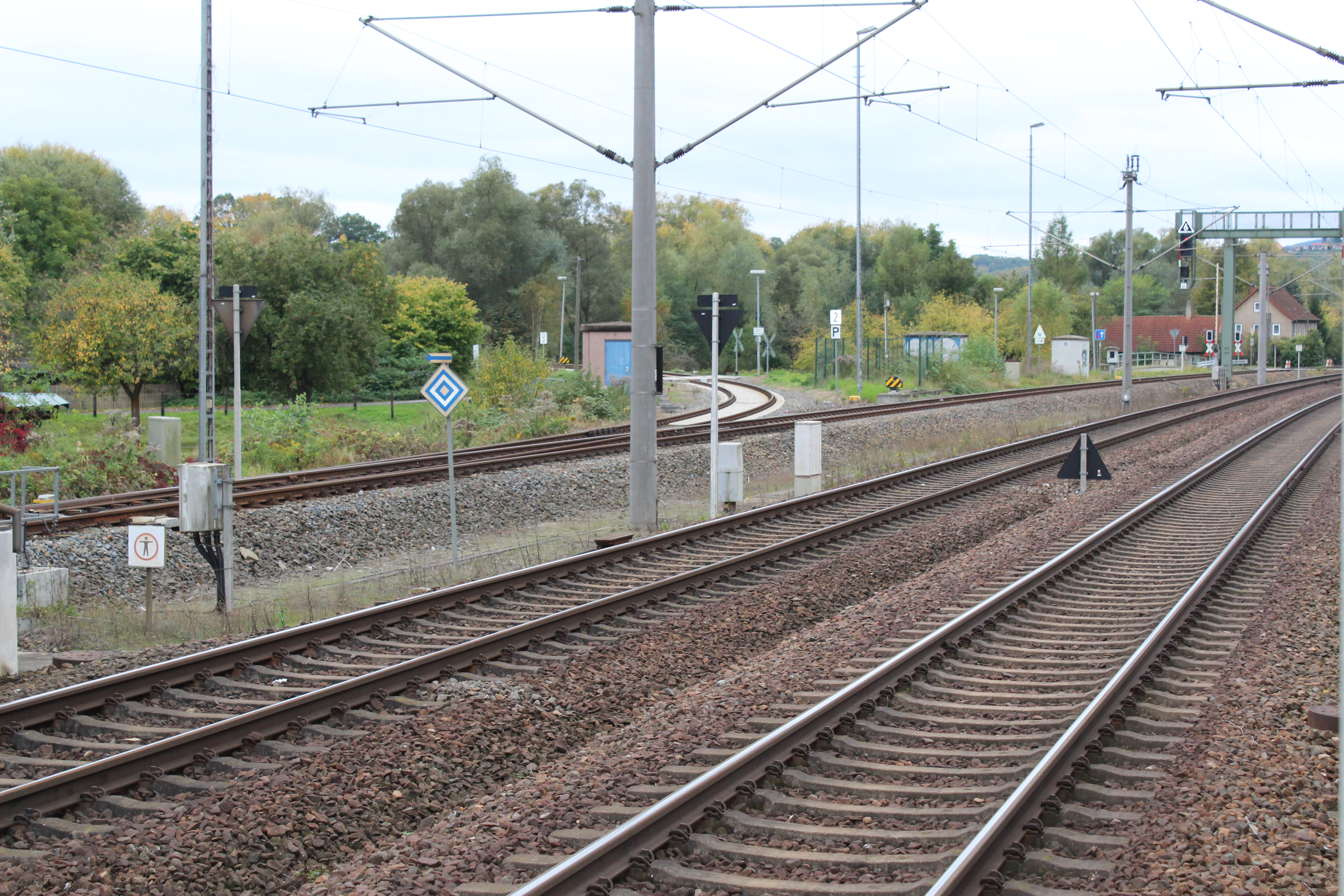 train station Orlamünde, turn-off Orlabahn